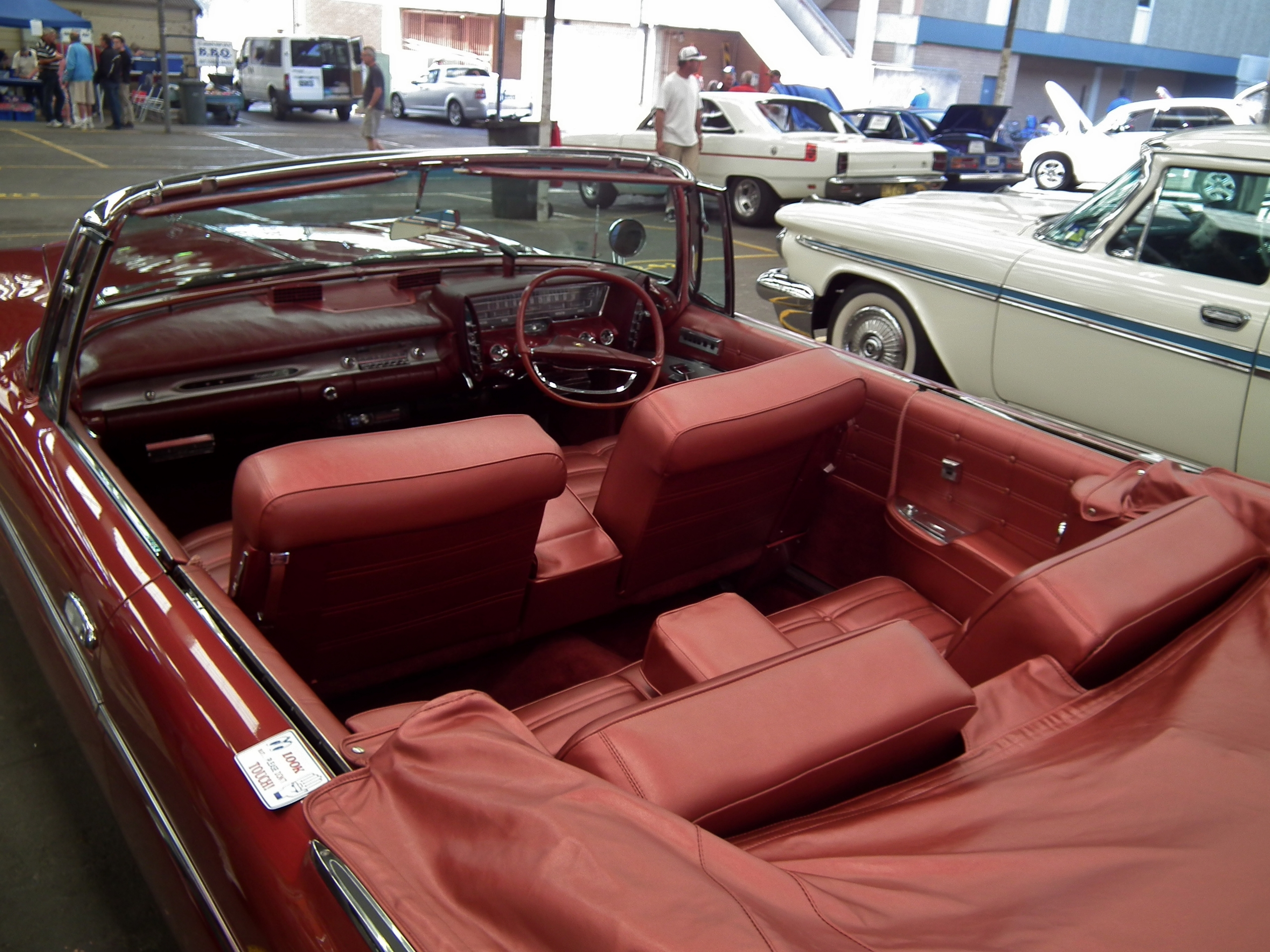 1963 Imperial Crown convertible interior. Taken at the 2013 New South Wales All Chrysler Day, held at Fairfield Showground, Prairiewood, Sydney.